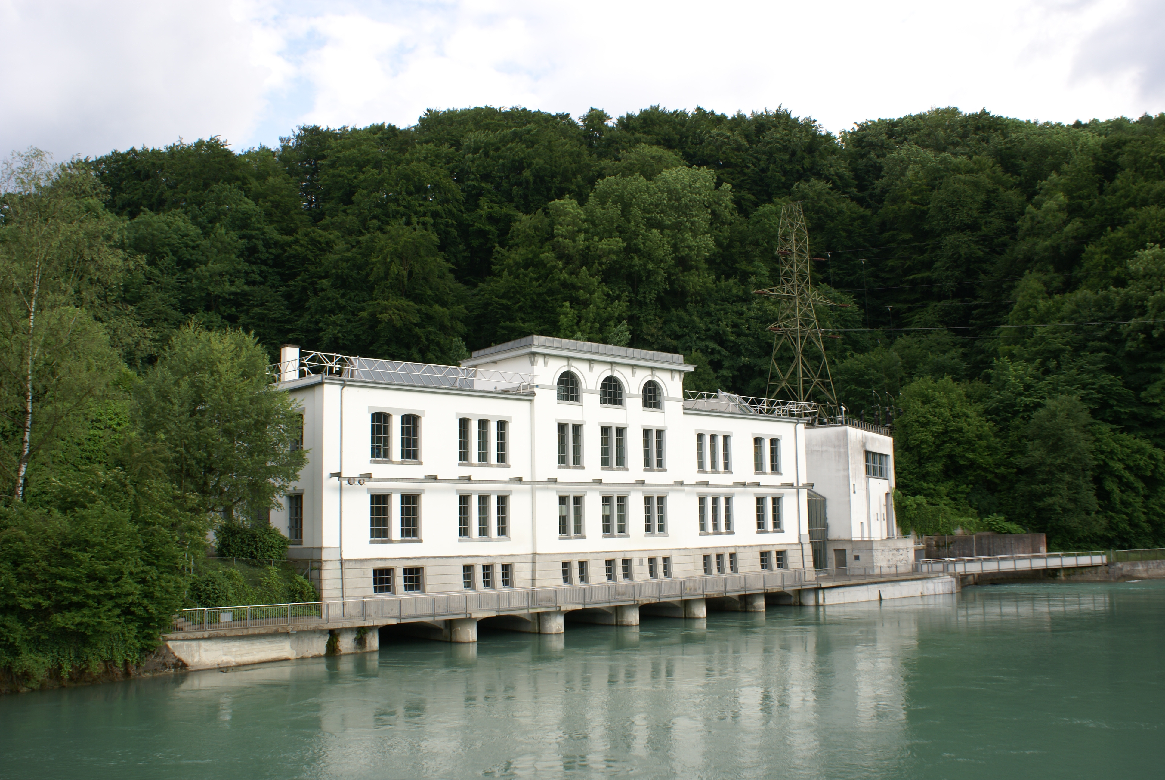 The Felsenau power plant, a hydroelectric power plant located on the river Aar in Berne, Switzerland.